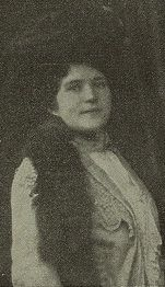 American poet and author of youth fiction, Josephine Daskam Baker